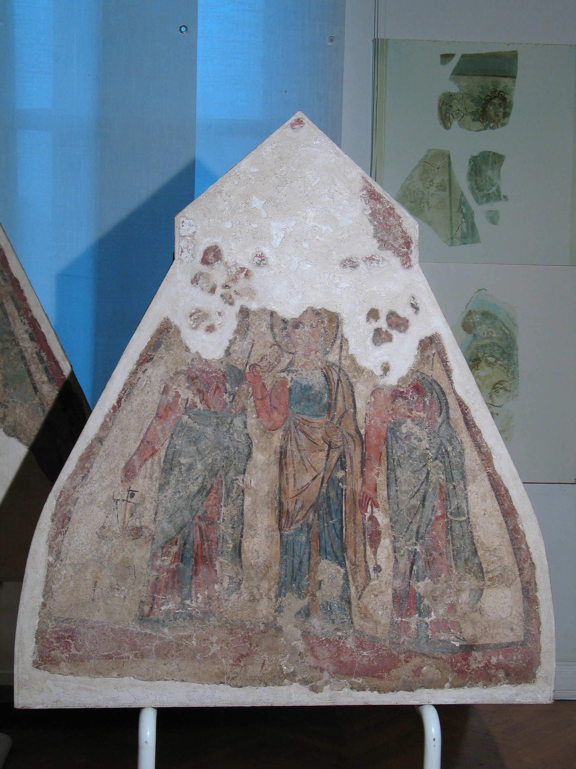 Eastern side of the tomb with a fresco showing three Parcae, archaeological site Beška-Brest (late 3rd and early 4th century). Srpski (latinica): Istočna strana grobnice sa freskom koja prikazuje tri suđaje, arheološki lokalitet Beška-Brest (kraj 3. i početak 4. veka).